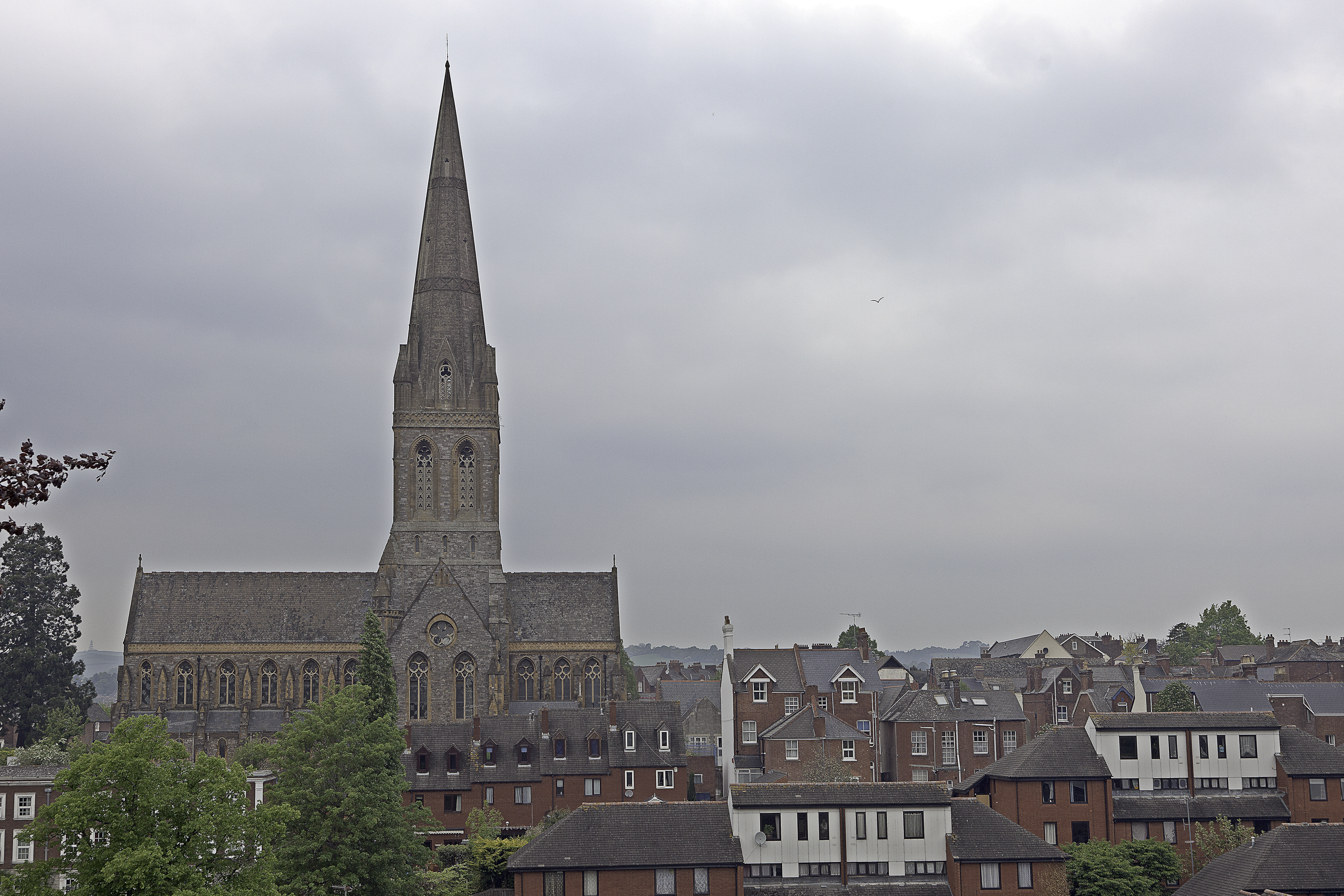 St Michaels & All Angels Mount Dinham Exeter]